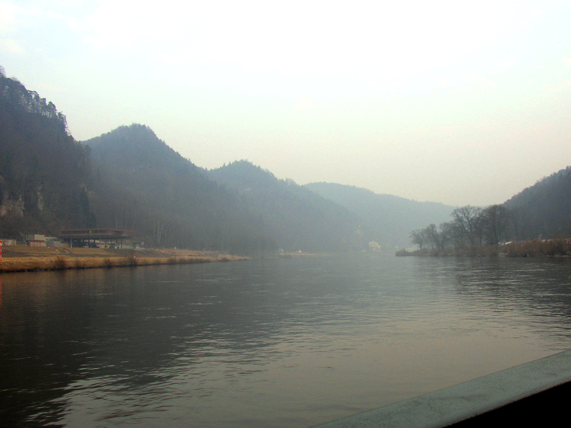 The Elbe river leaves Czech Republic and enters Germany between Hřensko and Schmilka at 115 m above sea level. This picture was taken by Miaow Miaow from a ferry boat between Schmilka and Schöna in late afternoon 28th February 2003.